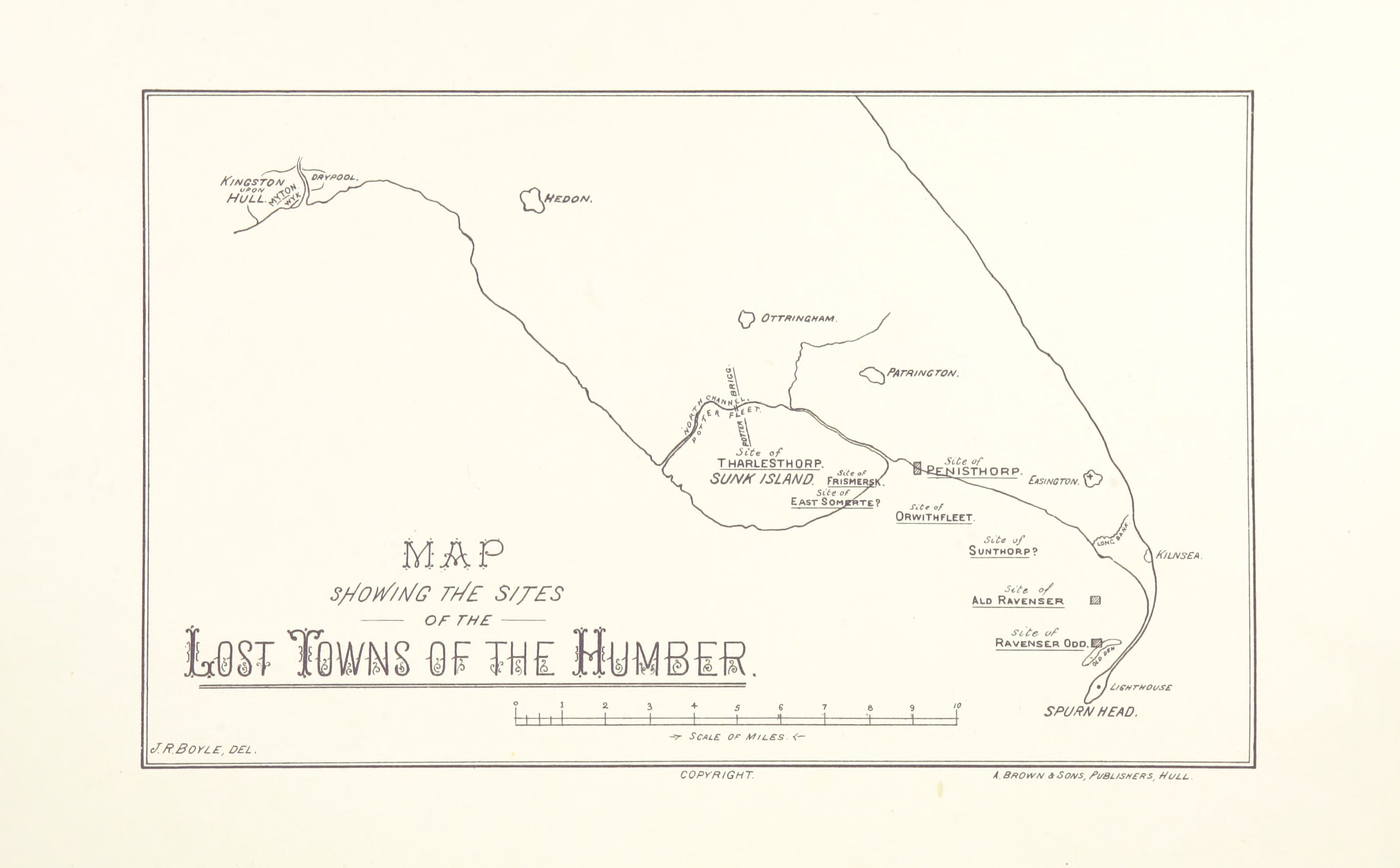 View this map on the BL Georeferencer service. Image taken from: Title: "The Lost Towns of the Humber; with an introductory chapter on the Roman geography of South East Yorkshire, etc. L.P" Author: BOYLE, John Roberts. Shelfmark: "British Library HMNTS 10368.k.18." Page: 6 Place of Publishing: Hull Date of Publishing: 1889 Publisher: A. Brown & Sons Issuance: monographic Identifier: 000443744 Explore: Find this item in the British Library catalogue, 'Explore'. Download the PDF for this book (volume: 0) Image found on book scan 6 (NB not necessarily a page number) Download the OCR-derived text for this volume: (plain text) or (json) Click here to see all the illustrations in this book and click here to browse other illustrations published in books in the same year. Order a higher quality version from here.